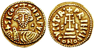 Lombards, Beneventum (nowdays Benevento. Siconulf, as Prince in Salerno. 839-849 AD. EL Solidus (3.73 g). SICO--NOLFVS•, crowned and draped facing bust, holding globus cruciger; wedge in right field VICTOR• +PRINCI, cross potent on two steps; S I, each with wedges beneath, flanking; CONOB. MEC 1, 1120; BMC Vandals -; CNI XVIII pg. 298, 1. Good VF, toned. Very rare. Siconulf's brother Sicard was murdered at the outbreak of a civil war in Beneventum in 839. Siconulf retreated to Salerno, while Radelchis was proclaimed prince of Beneventum. The emperor Louis II ordered the two factions to make peace and divide the principality between them, but Siconulf's death in 849 led to further strife that devastated the land.